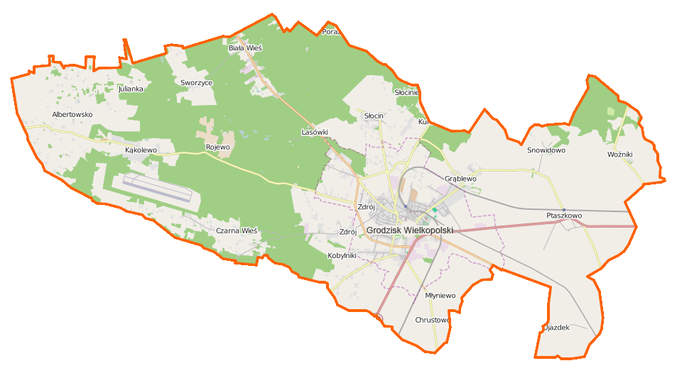 Map of Gmina Grodzisk Wielkopolski, Poland This map of Grodzisk Wielkopolski (gmina) was created from OpenStreetMap project data, collected by the community. This map may be incomplete, and may contain errors. Don't rely solely on it for navigation. Border coordinates52.291516.1681←↕→16.496052.1807